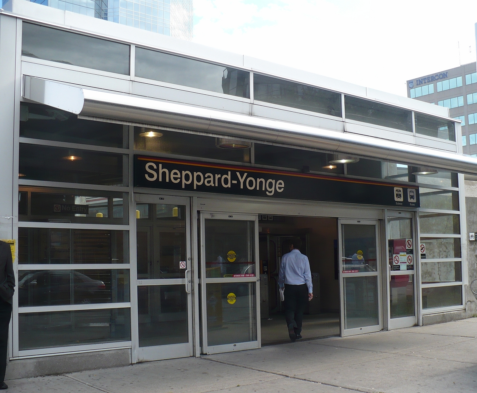 Harlandale Avenue entrance to Sheppard-Yonge subway station in Toronto